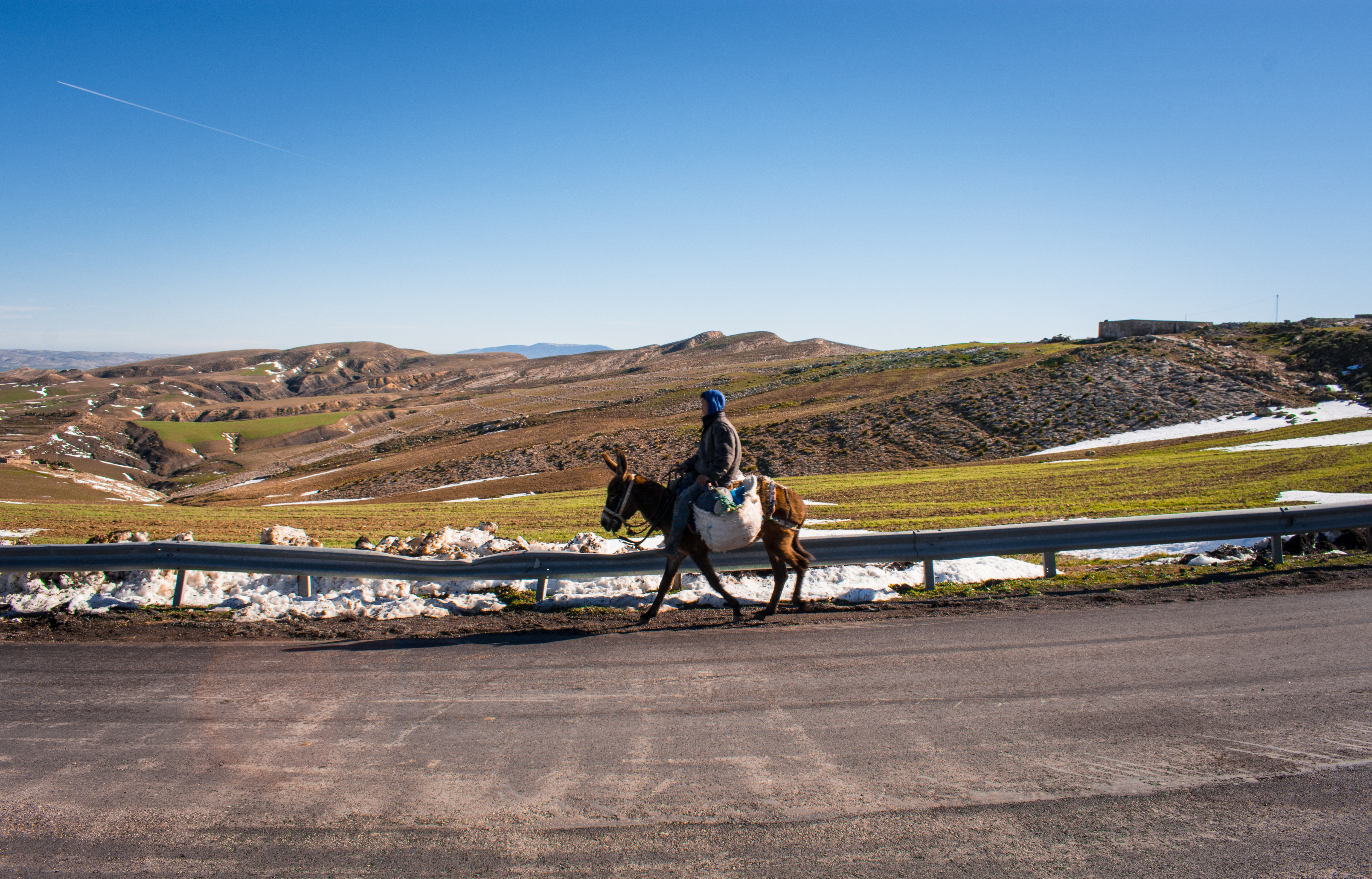 This is an image with the theme "Africa on the Move or Transport" from: Tunisia